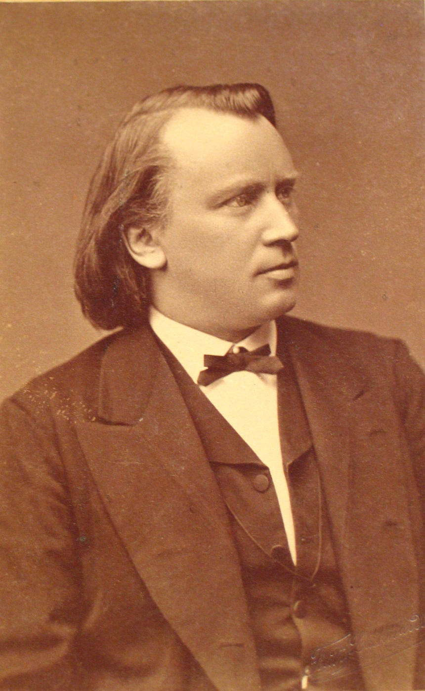 Half-length portrait of Johannes Brahms.